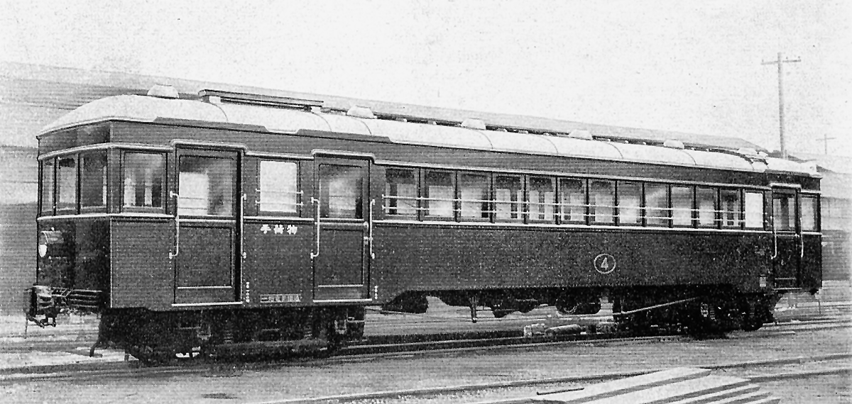 Ichibata elc rly kuha 3 EMU No.4